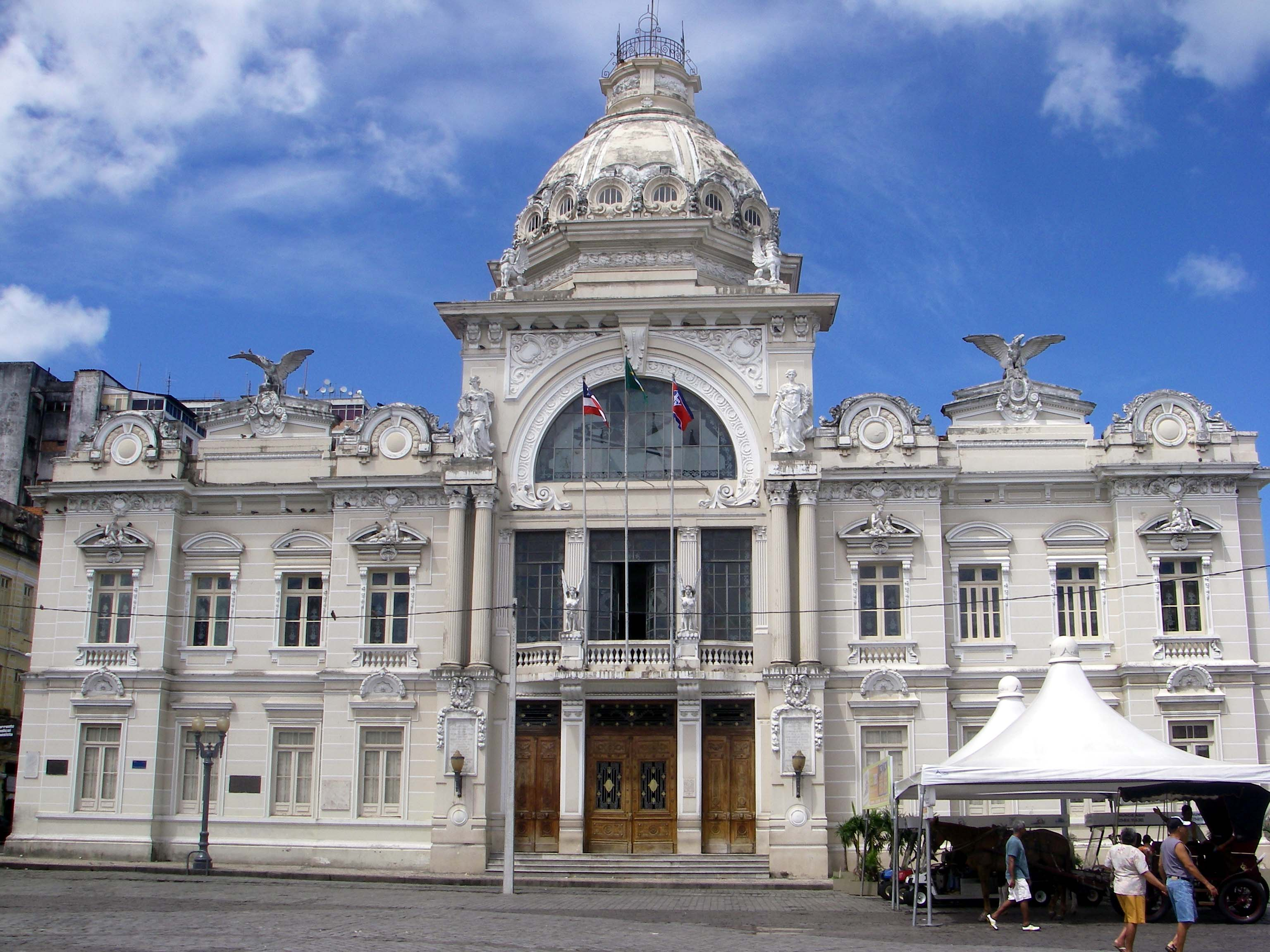 Palácio Rio Branco, seat of Government in Salvador, Bahia, Brazil.